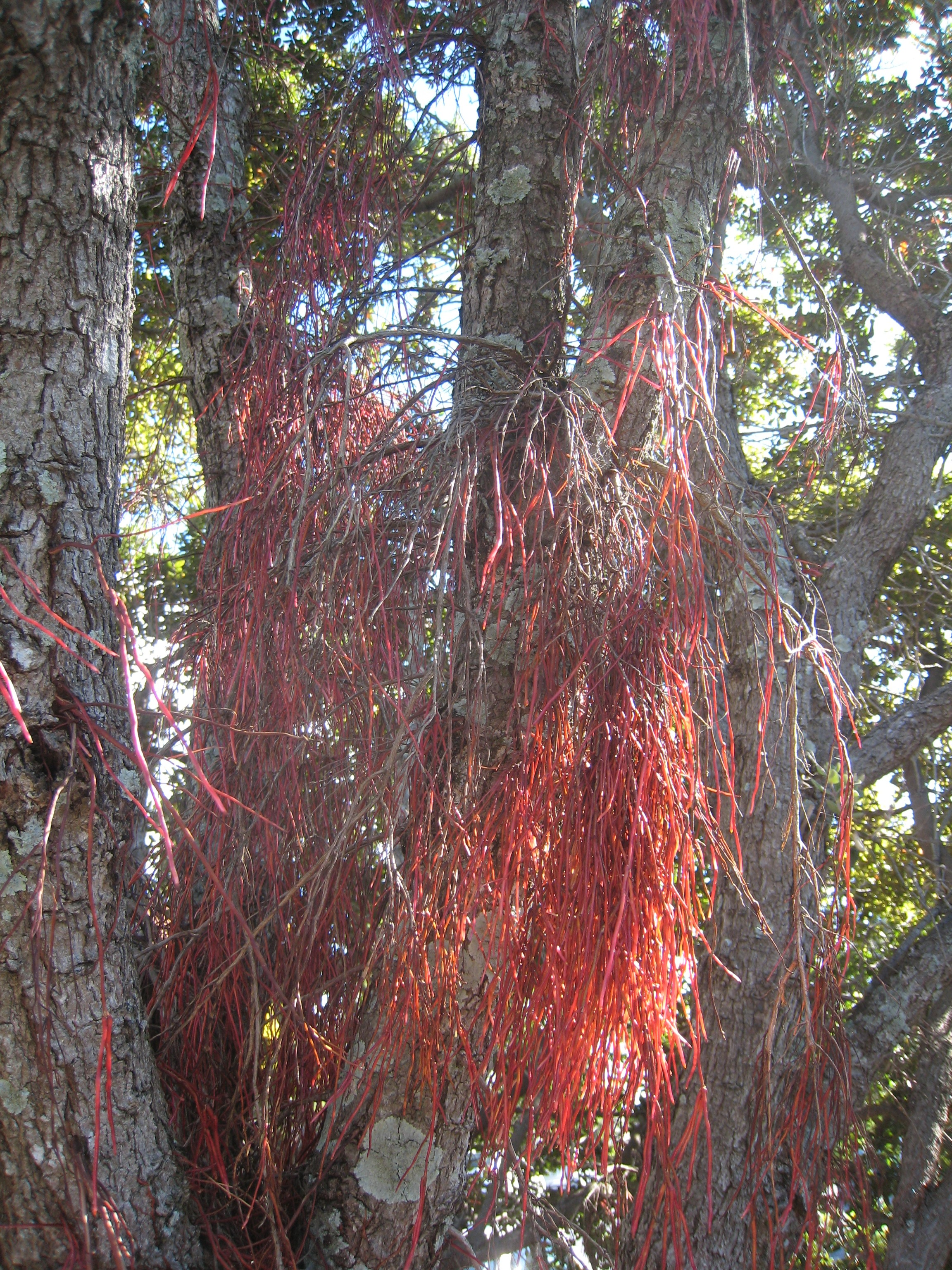 Aerial roots of a pohutukawa tree, partially backlit.